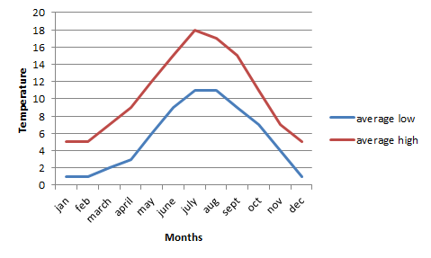 Yearly weather graph for Barugh containing average tempertaures